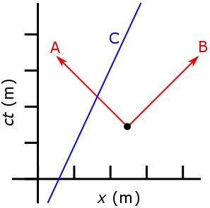 A and B illustrate the world lines of two photons originating at the same event, one traveling to the right and the other to the left. C illustrates the world line of a slower-than-light object. Both the x and the ct axes are in meters.